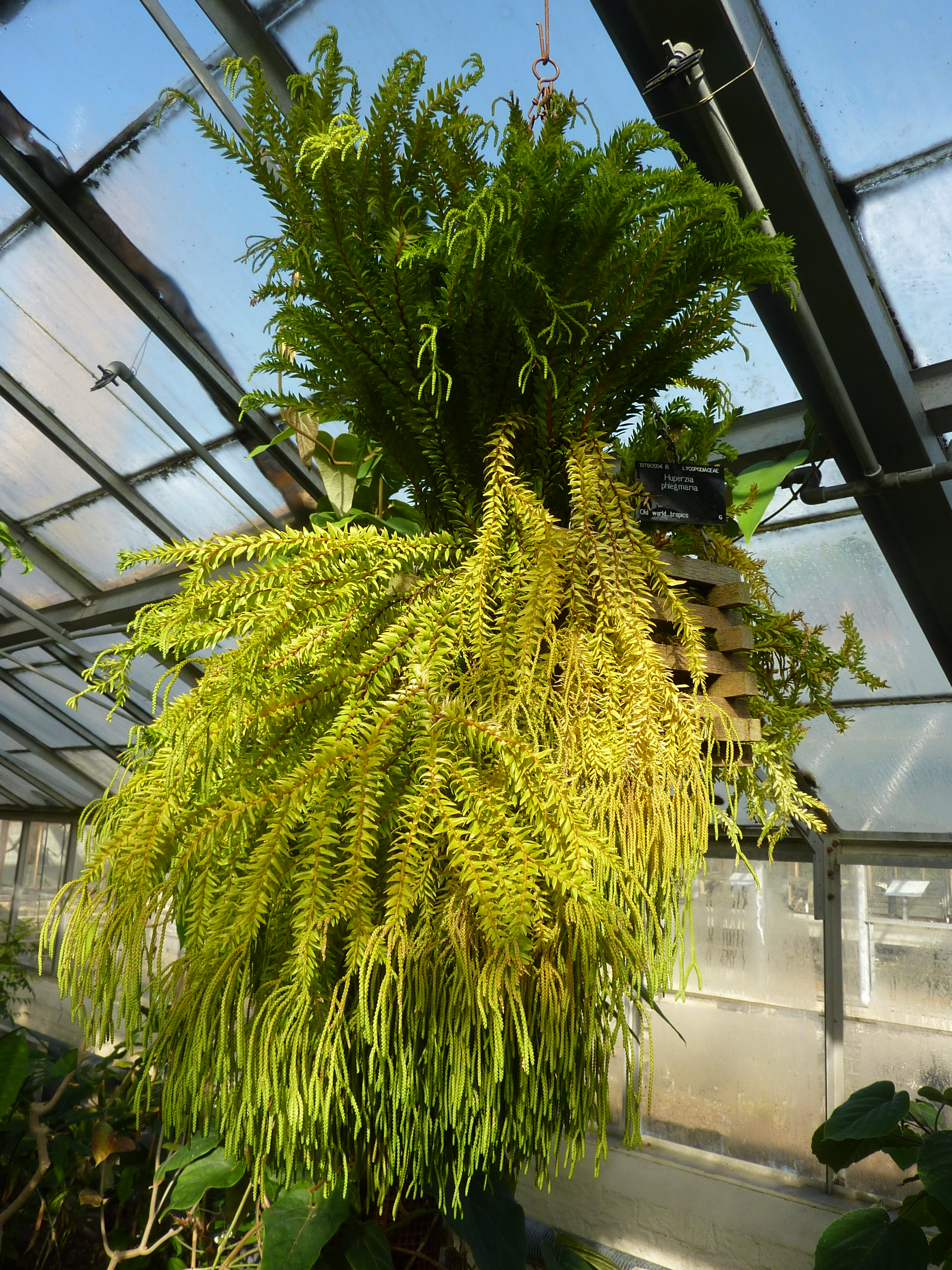 Taken in the Cambridge University Botanic Garden.